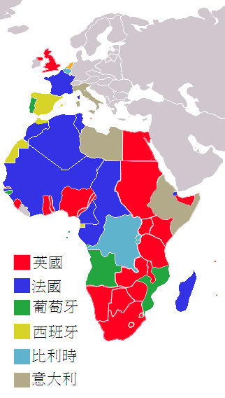 Africa_colonization_1939